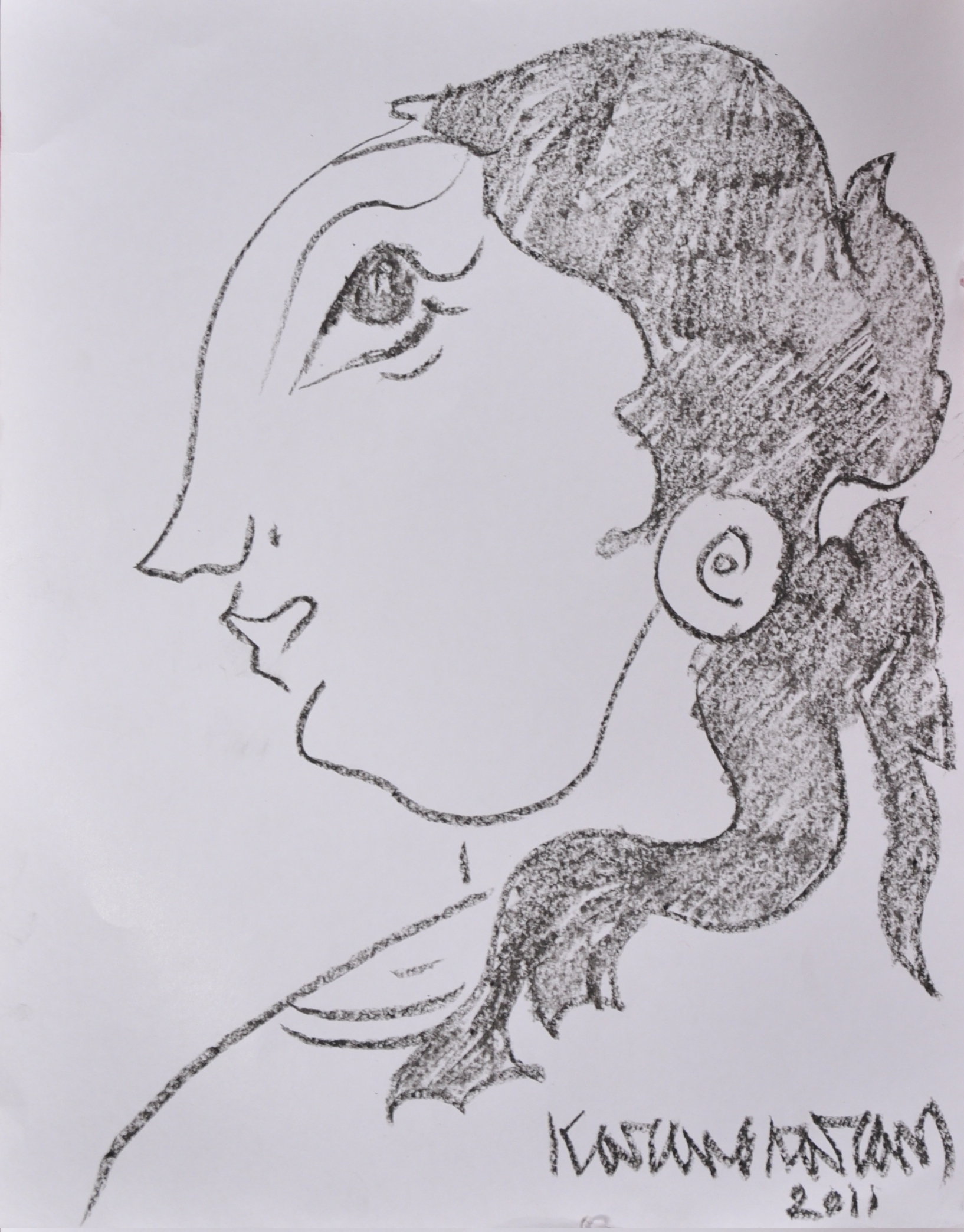 A charcoal drawing by C.N. Karunakaran